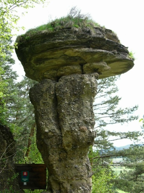 Markušovce Rock Mashroom, the best known rock mashroom in Europe, Markušovce, Markušovské steny, highest and biggest, over 8m